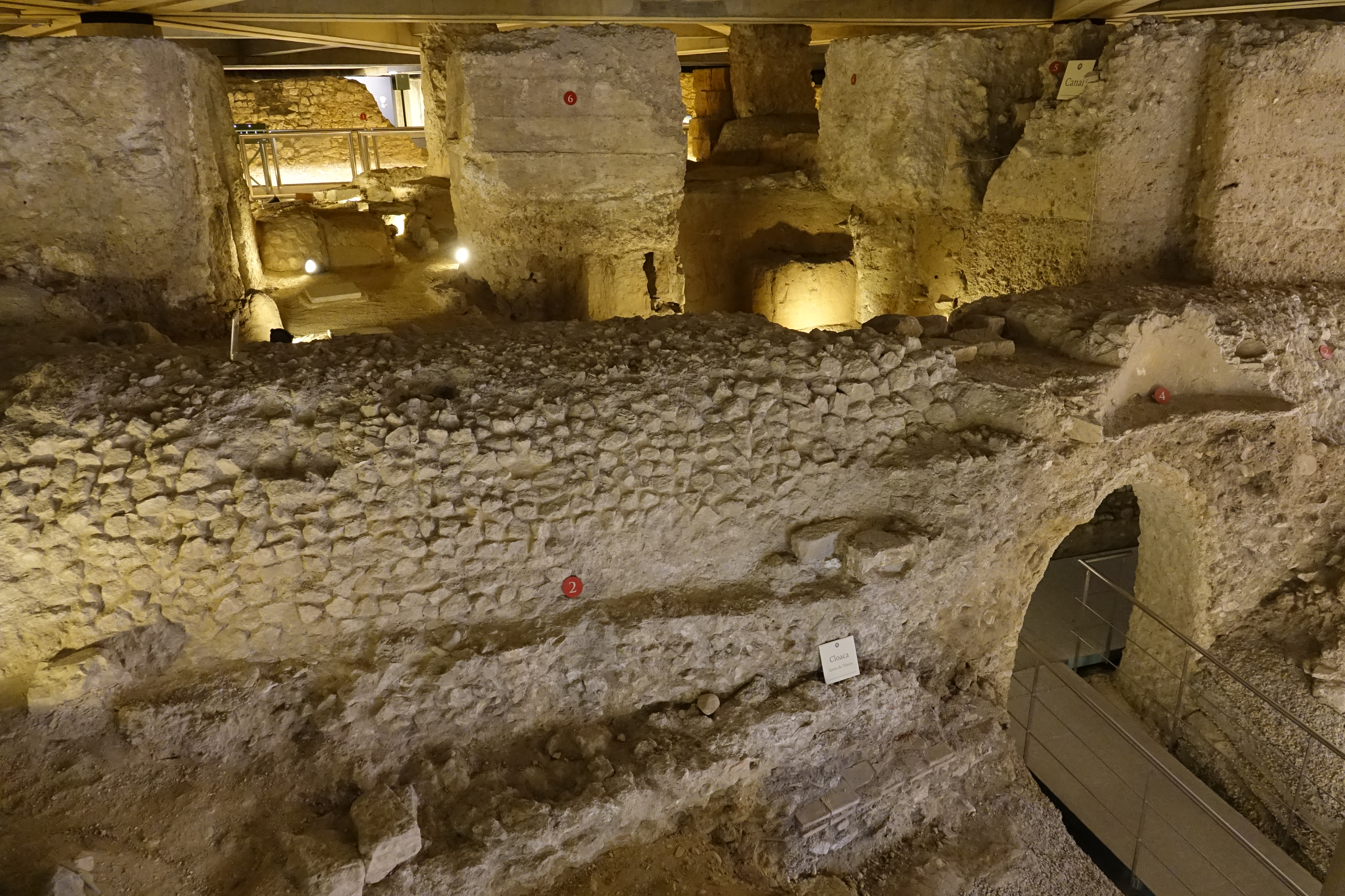 Roman forum of Caesaraugusta (Zaragoza). Sewage system built in Roman times and foundations of the portico.